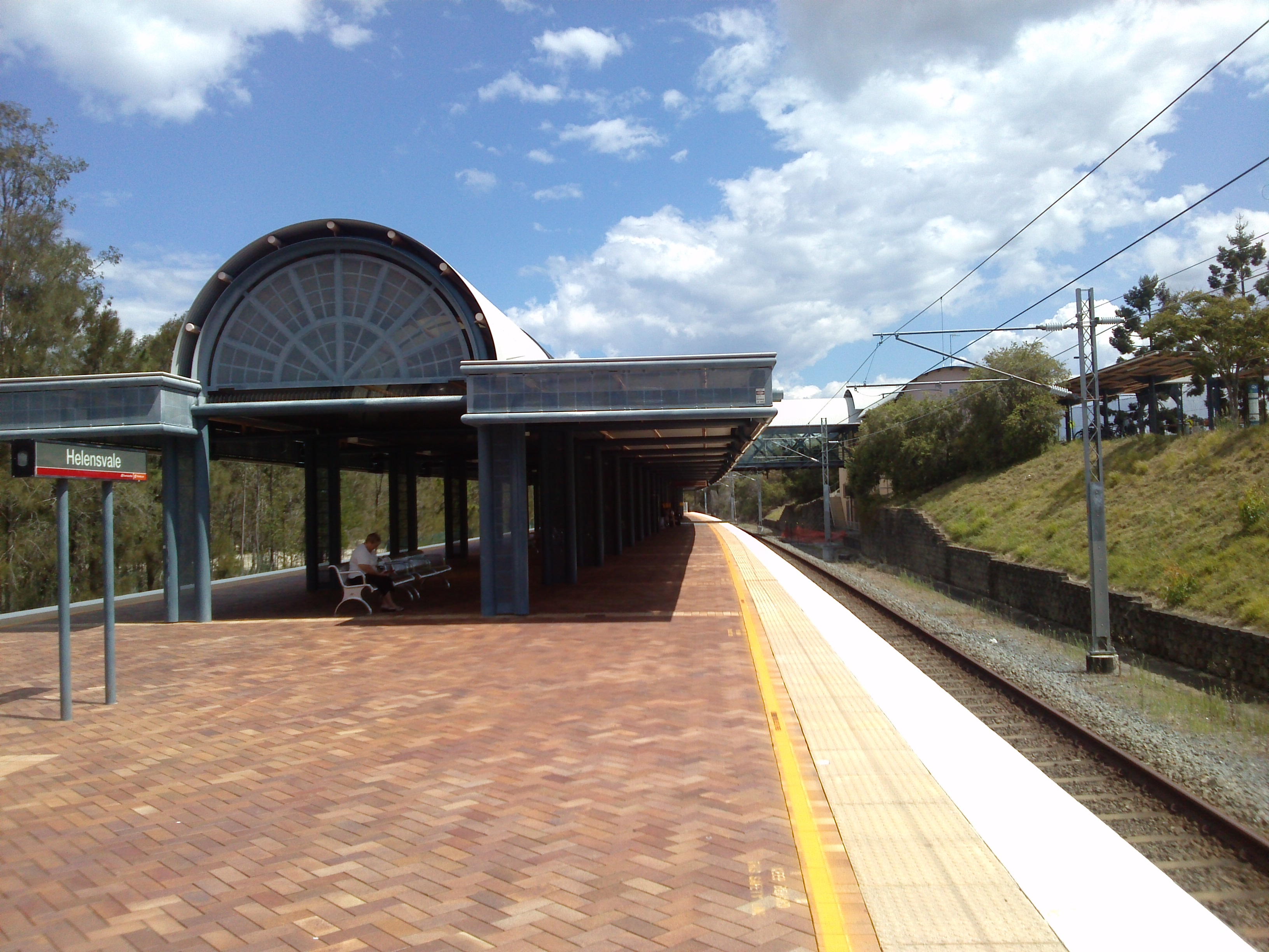 Helensvale station, on the Gold Coast line.